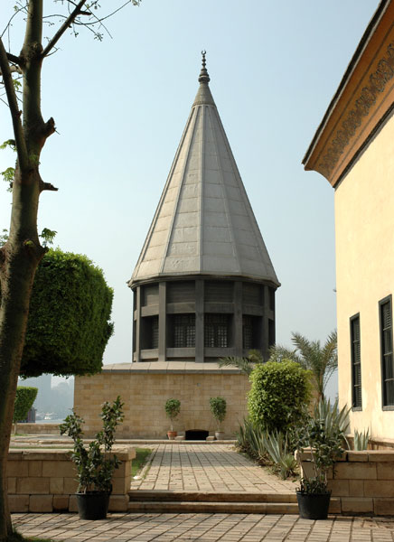 Nilometer at Rawda. Cairo. Egypt